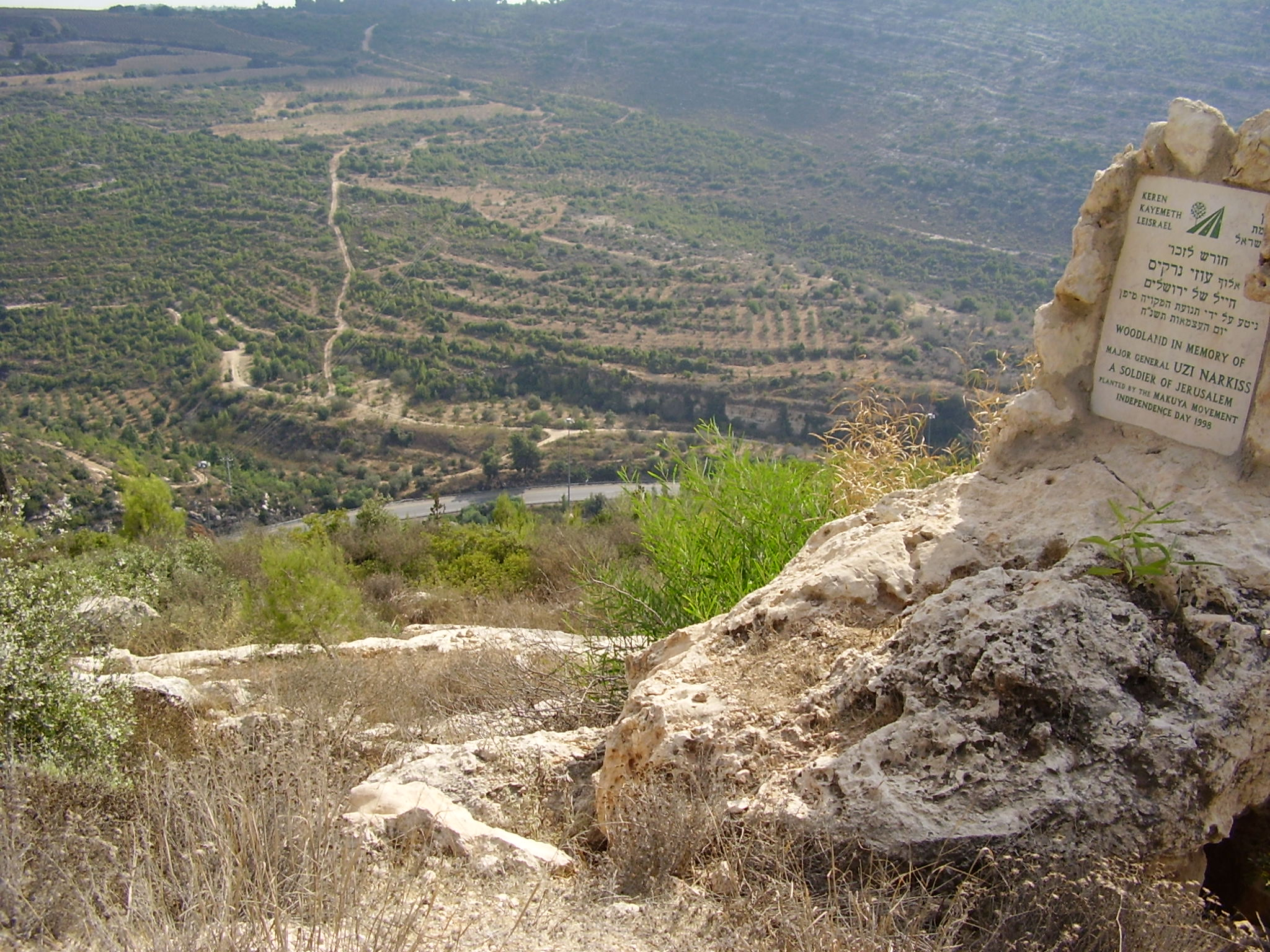 uzi narkiss wood above tel aviv - jerusalem road